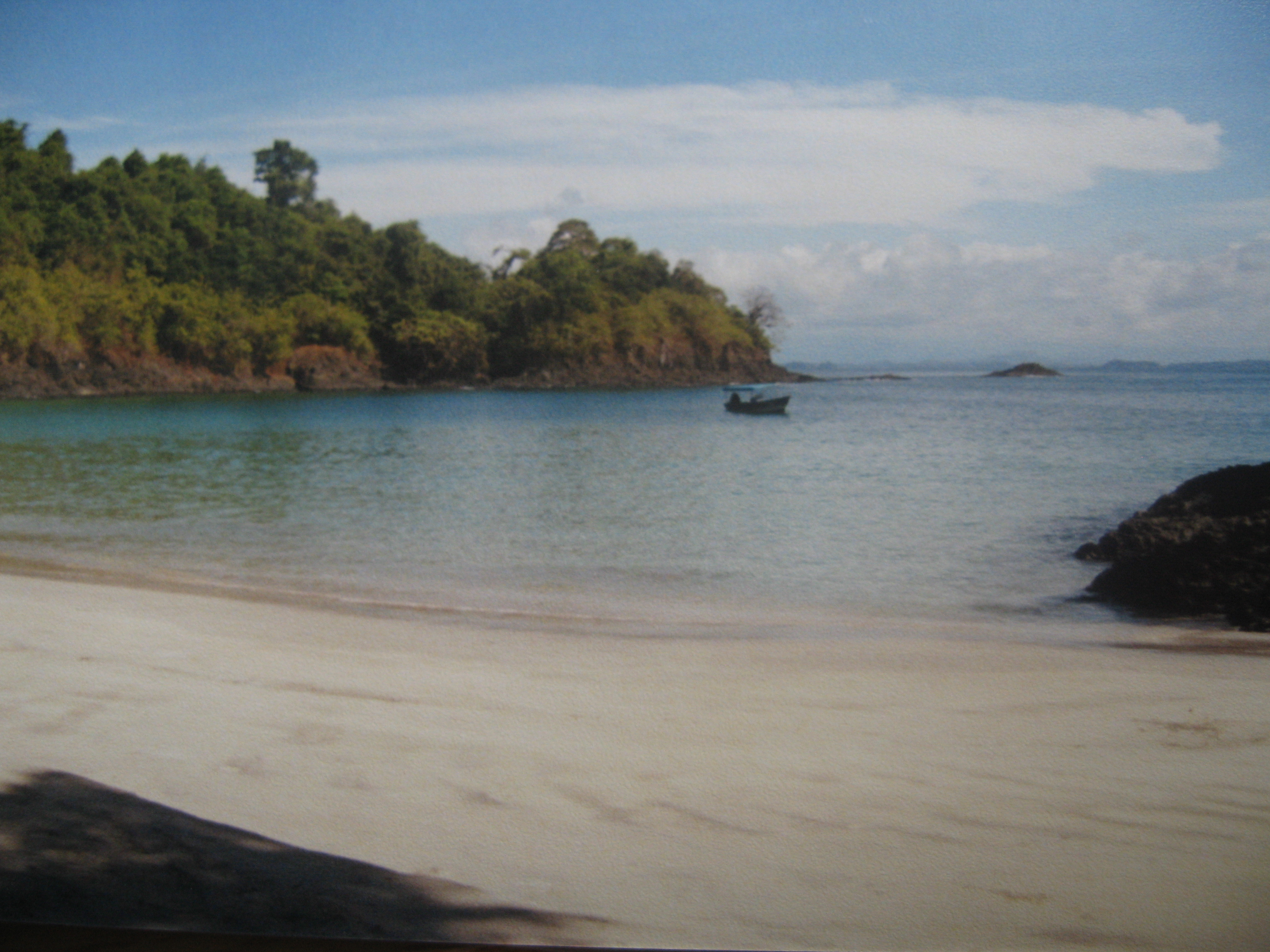 eine Insel im Nationalpark Chiriquí in Panama. own work, public domain